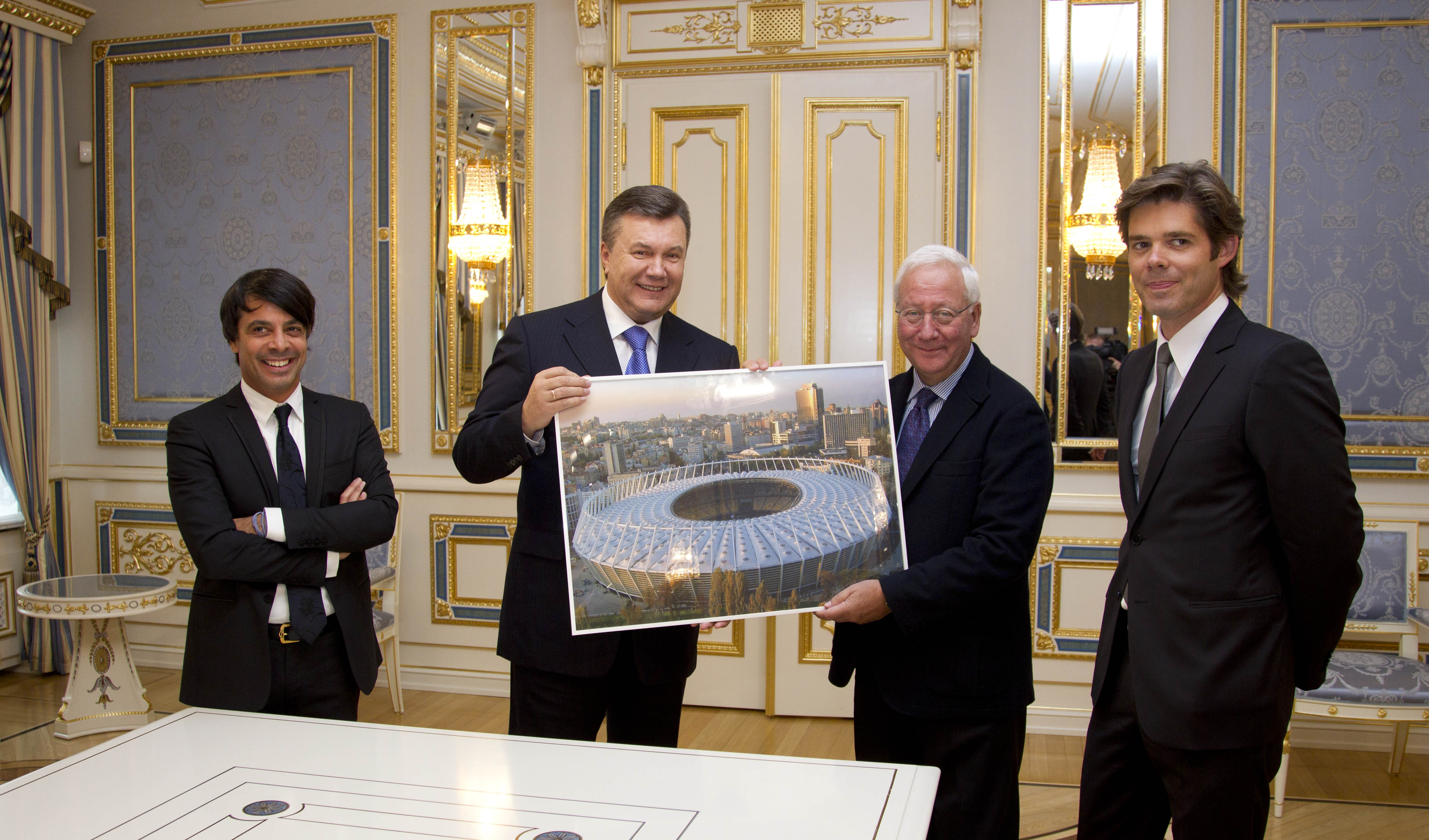 Euronews management meets with President Viktor Yanukovych